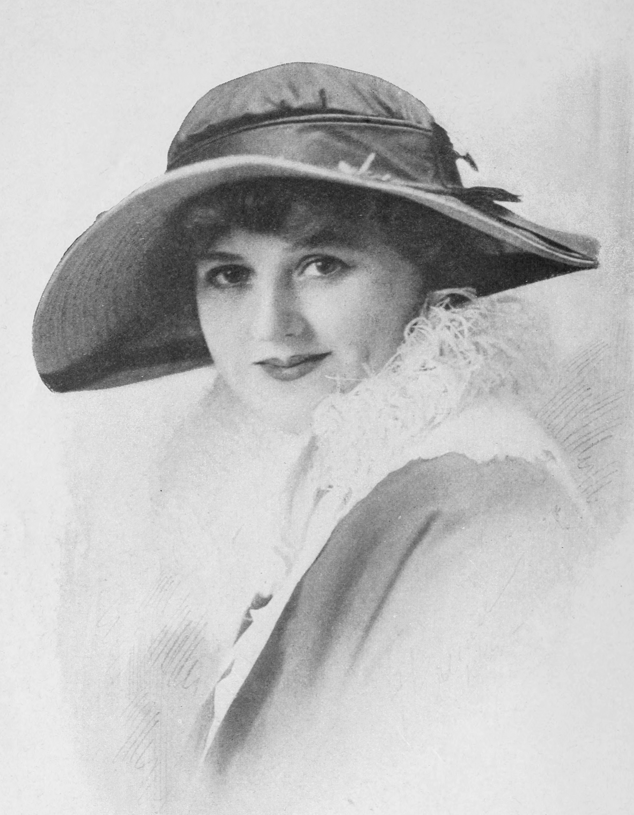 Lillian Walker (1887-1975) Image caption: Lillian Walker (Vitagraph)